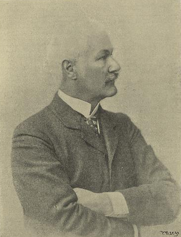 Christian, Count of Tattenbach (1846–1910), German diplomat